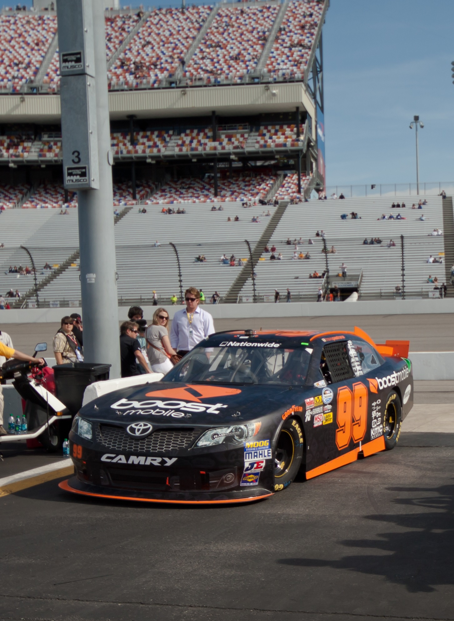 Travis Pastrana's Toyota Camry at the Virginia 529 College Savings 250, part of the 2012 NASCAR Nationwide Series.